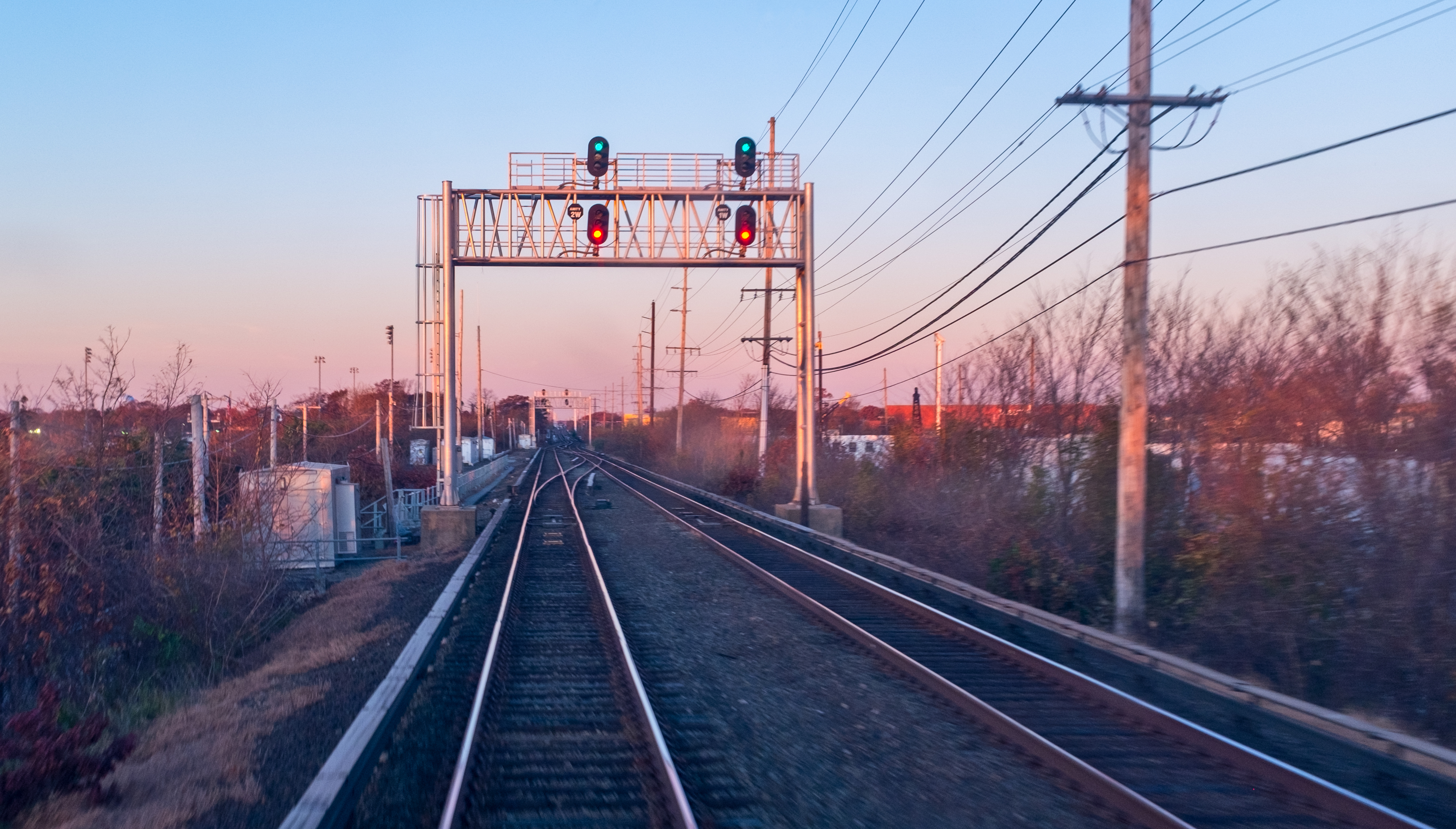 Signal Gantry before a crossover on the LIRR Babylon Line. Note this is an express train, running on the LEFT side track. The LIRR sometimes runs trains on both tracks in the same direction during rush hour.